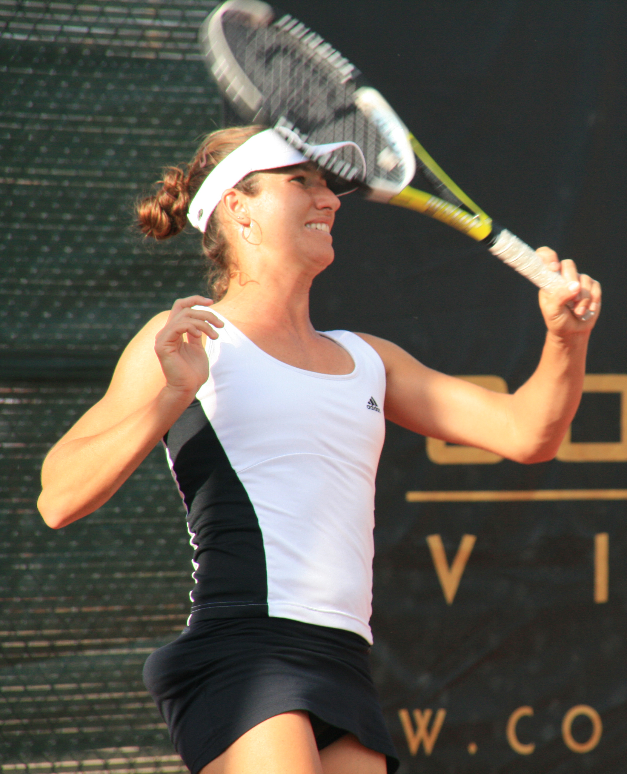 Maria Fernanda Alves at the Coleman Vision Tennis Championship in Albuquerque, New Mexico.